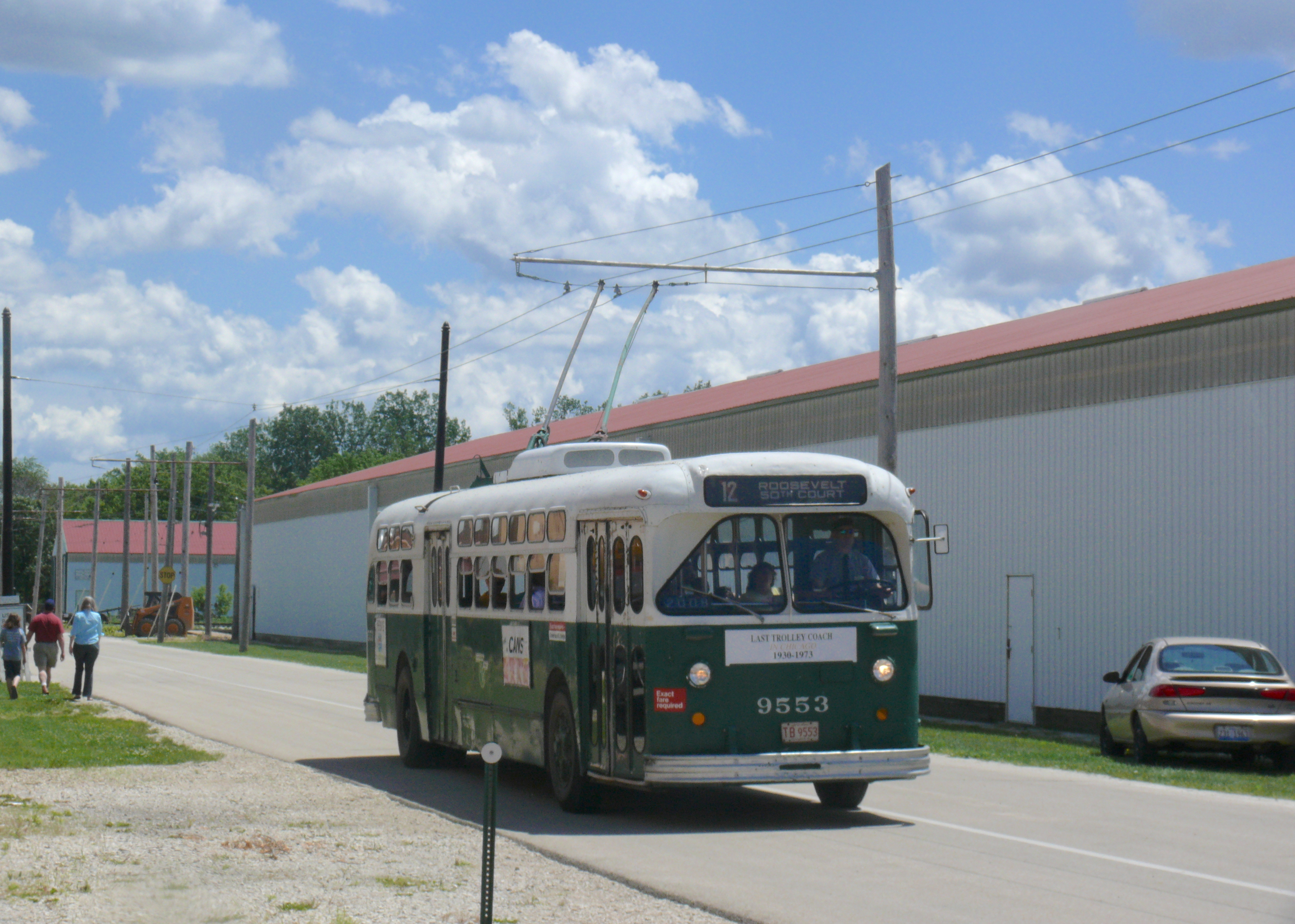 Ex-Chicago trolley bus 9553, built in 1951 by Marmon-Herrington, in passenger service at the Illinois Railway Museum in 2008. It is running on a section of two-way single-track overhead wire, which has subsequently been rebuilt with two "tracks" (two sets of overhead wires, one for each direction of travel). The Chicago trolley bus system closed in 1973.